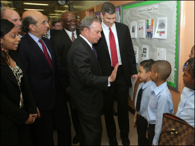 New York City Schools Chancellor Joel Klein, New York City Mayor Michael Bloomberg and U.S. Secretary of Education Arne Duncan visit with students at Explore Charter School. Secretary Duncan visited Explore Charter School in Brooklyn, N.Y., to discuss the importance of the American Recovery and Reinvestment Act of 2009, which provides $100 billion for education funding to save and create jobs, advance school reform and provide college grants, tuition tax credits, and school modernization funds.